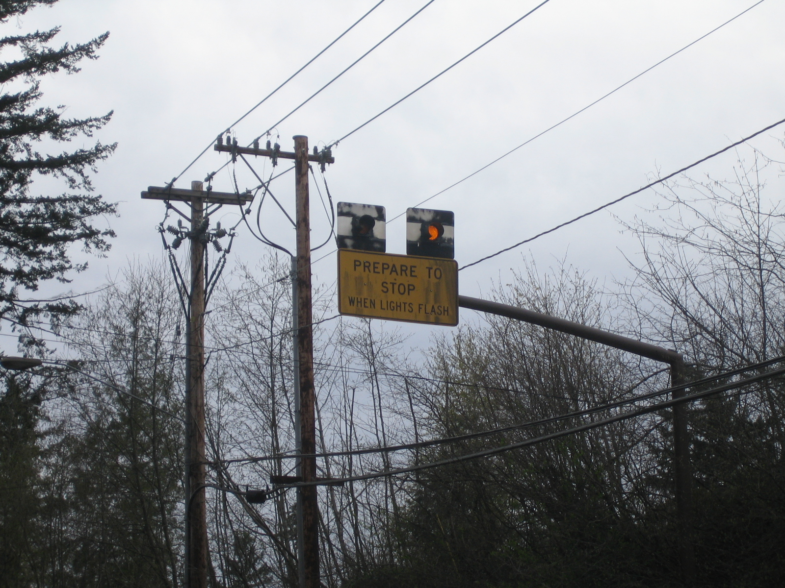 This is a flashing warning sign that alternately flashes the amber lights when the traffic signal around the corner is showing a red or amber signal. It continues to flash briefly after the traffic light turns green to allow traffic to start moving. This example can be found on westbound Miller Road leading up to Cornell Road in Portland, Oregon and is accompanied by a 'signal ahead' sign.